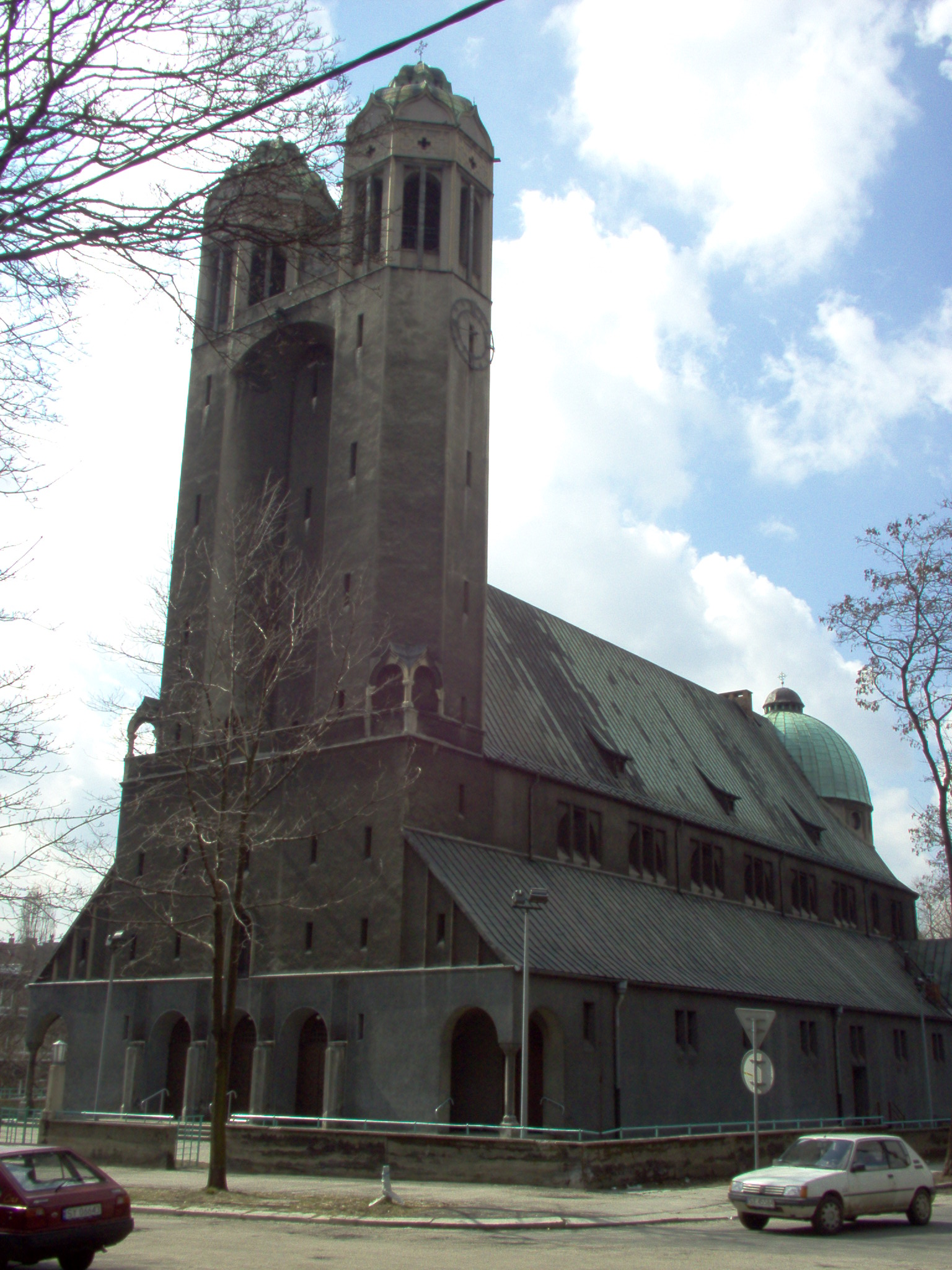 Church of st. Barbara in Bytom.